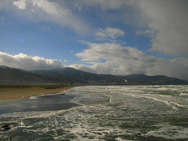 West coast of Ishikari Gulf of the Sea of Japan. Otaru, Hokkaidō prefecture, Japan. Westward from the mouth fo Hoshioki River.